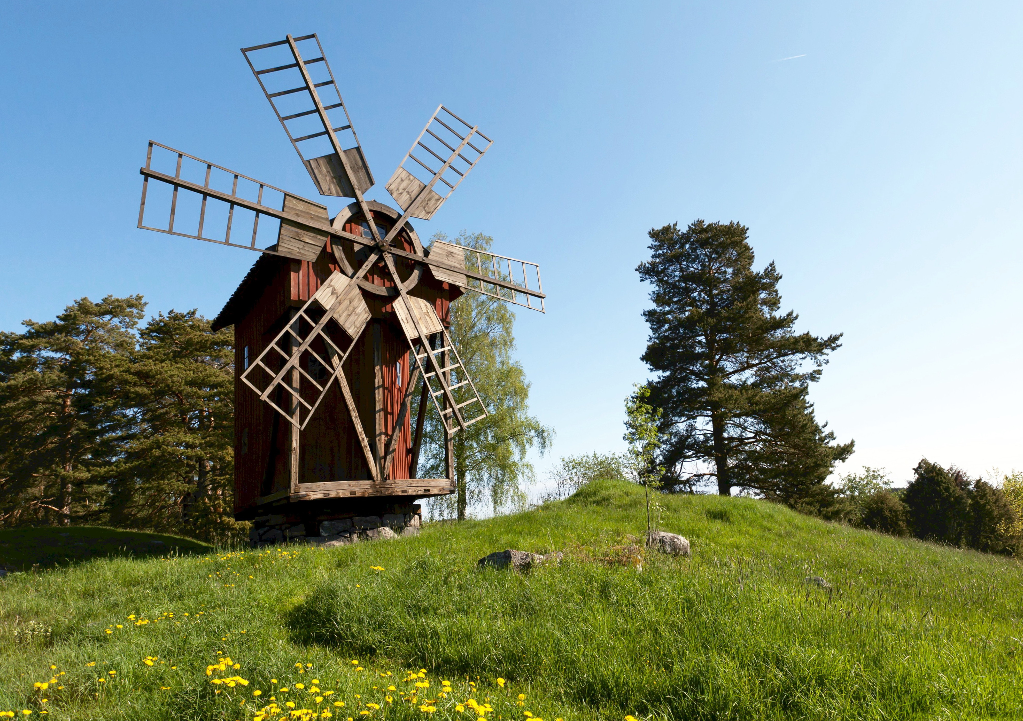 Windmill in Swedish country side.